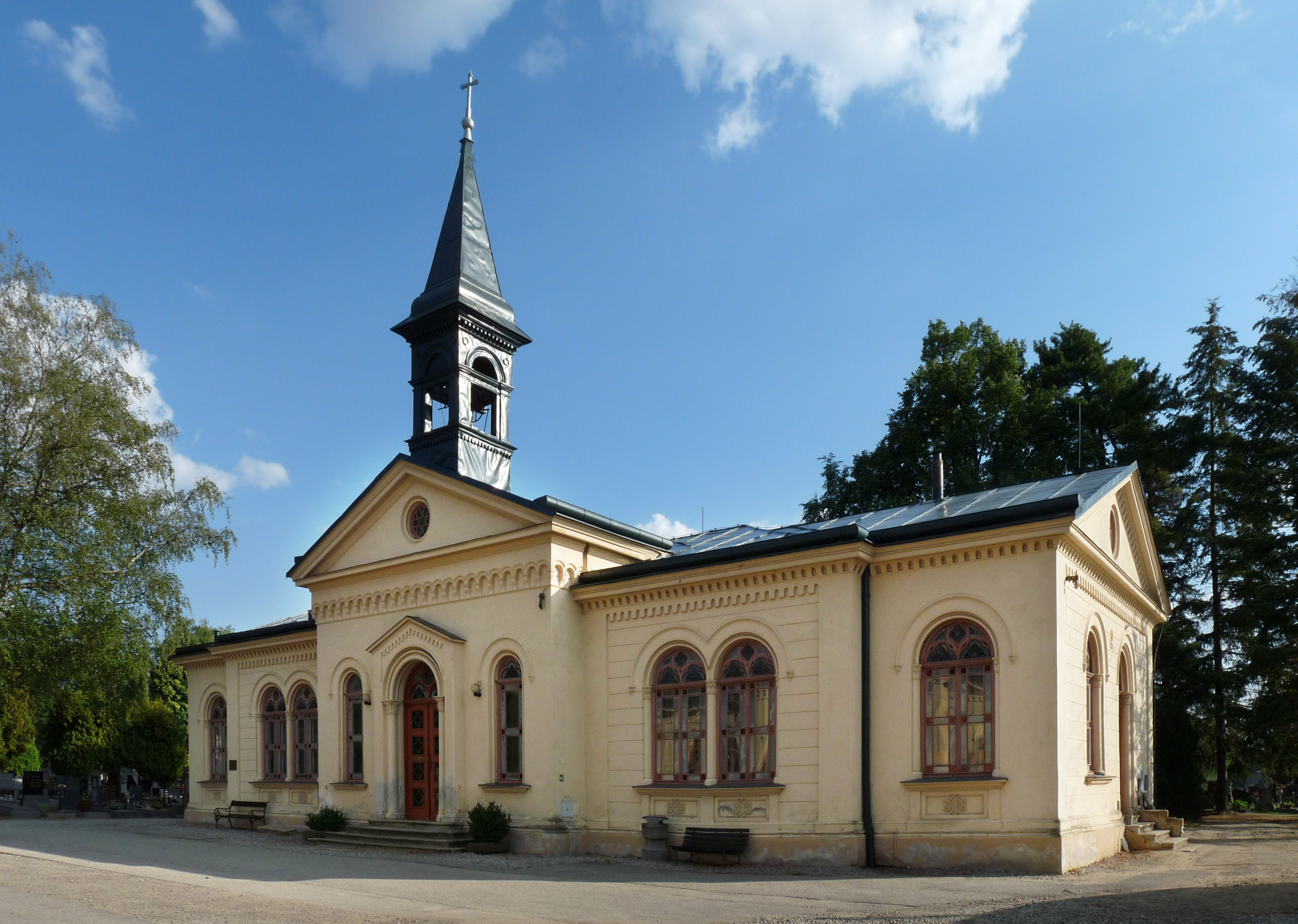 Chapel of Saint Odile in the municipal cemetery, České Budějovice, South Bohemian Region, Czech Republic